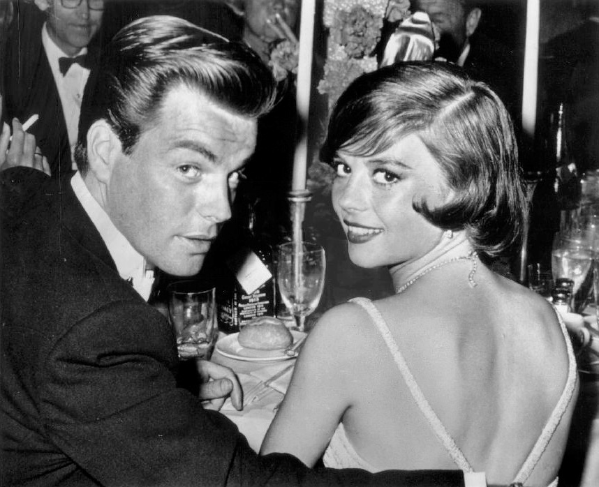 Photo of Robert Wagner and Natalie Wood at the Academy Awards dinner in 1960.